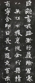 书戎表